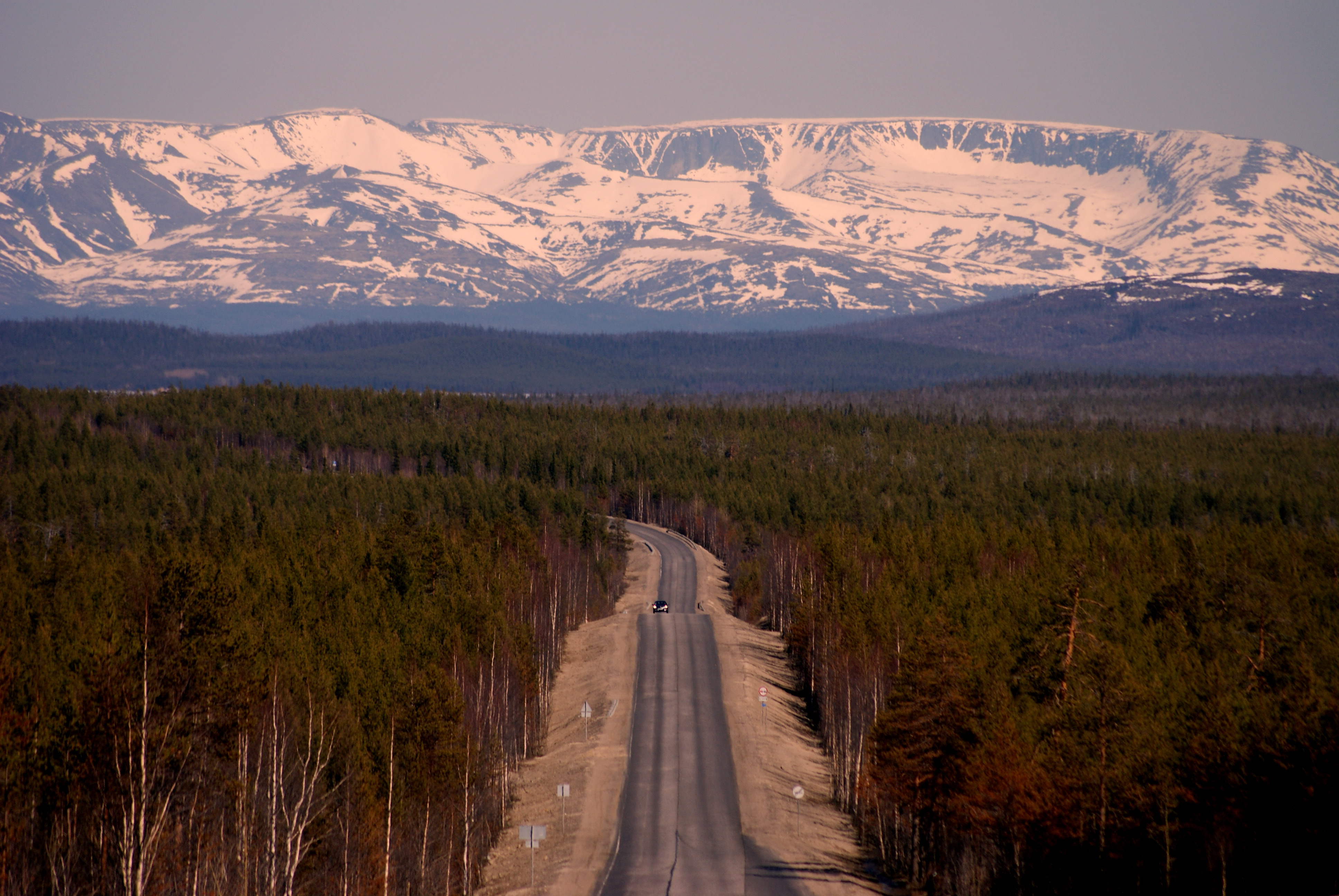 European route E105/Russian route M18 «Kola» in the area near Polyarnye Zori. View to north-east, to Khibiny Mountains.